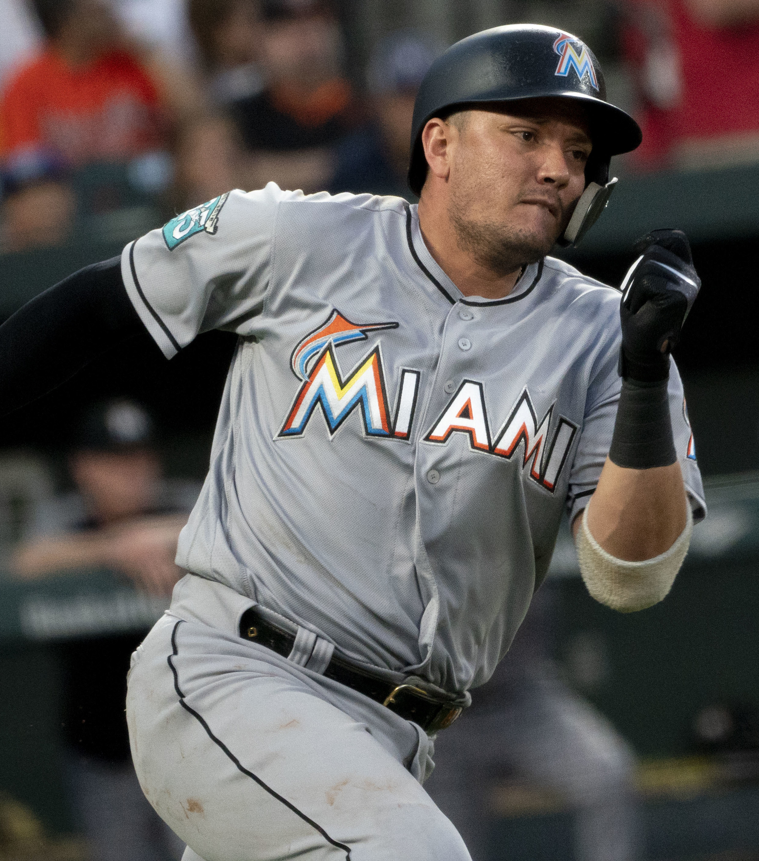 Marlins at Orioles 6/15/18